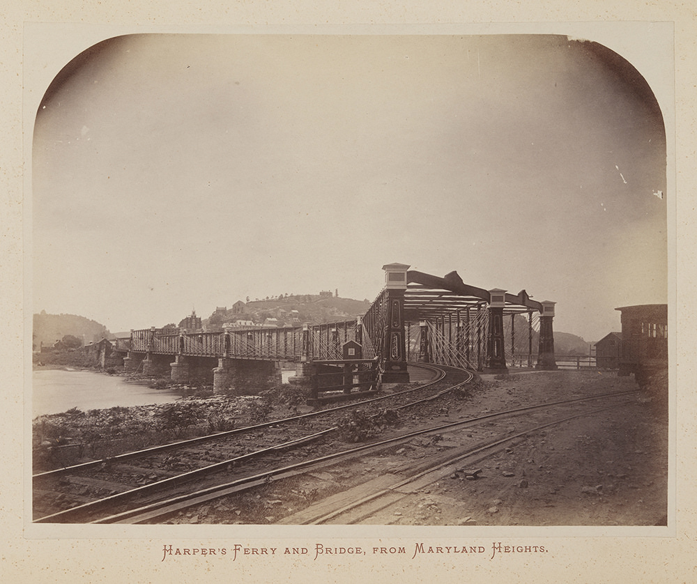 Title: Harper's Ferry and Bridge, from Maryland Heights, 1872, DeGolyer Library, SMU. Place: Harpers Ferry, Jefferson County, West Virginia Part Of: Photographic views of the Baltimore and Ohio Rail Road and its branches from the lakes to the sea Description: This is an albumen print from the book Photographic Views of the Baltimore and Ohio Rail Road, and Its Branches, From The Lakes to The Sea, which is illustrated with images of attractions found along the route of the Baltimore and Ohio Railroad between Baltimore and Chicago. Physical Description:1 photographic print: albumen, part of 1 volume; 19 x 25 cm on 26 x 34 cm File: vault_ag1982_0119x_035_opt.jpg Rights: Please cite Southern Methodist University, Central University Libraries, DeGolyer Library when using this image file. A high-quality version of the file may be obtained for a fee by contacting . For more information, View the full album at: View North America: Photographs, Manuscripts, and Imprints